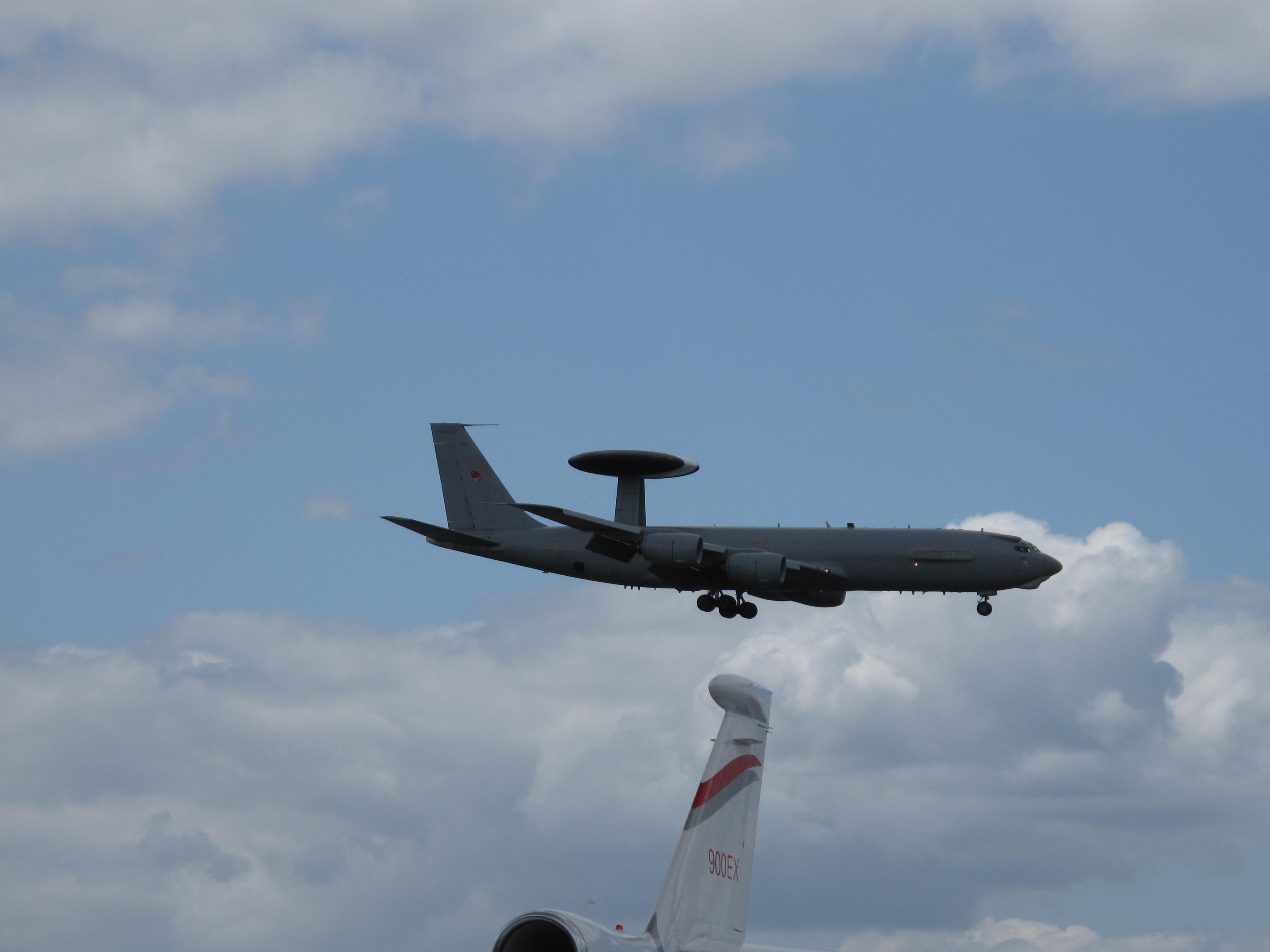 E3-Sentry AWACS at the Paris Air Show 2009